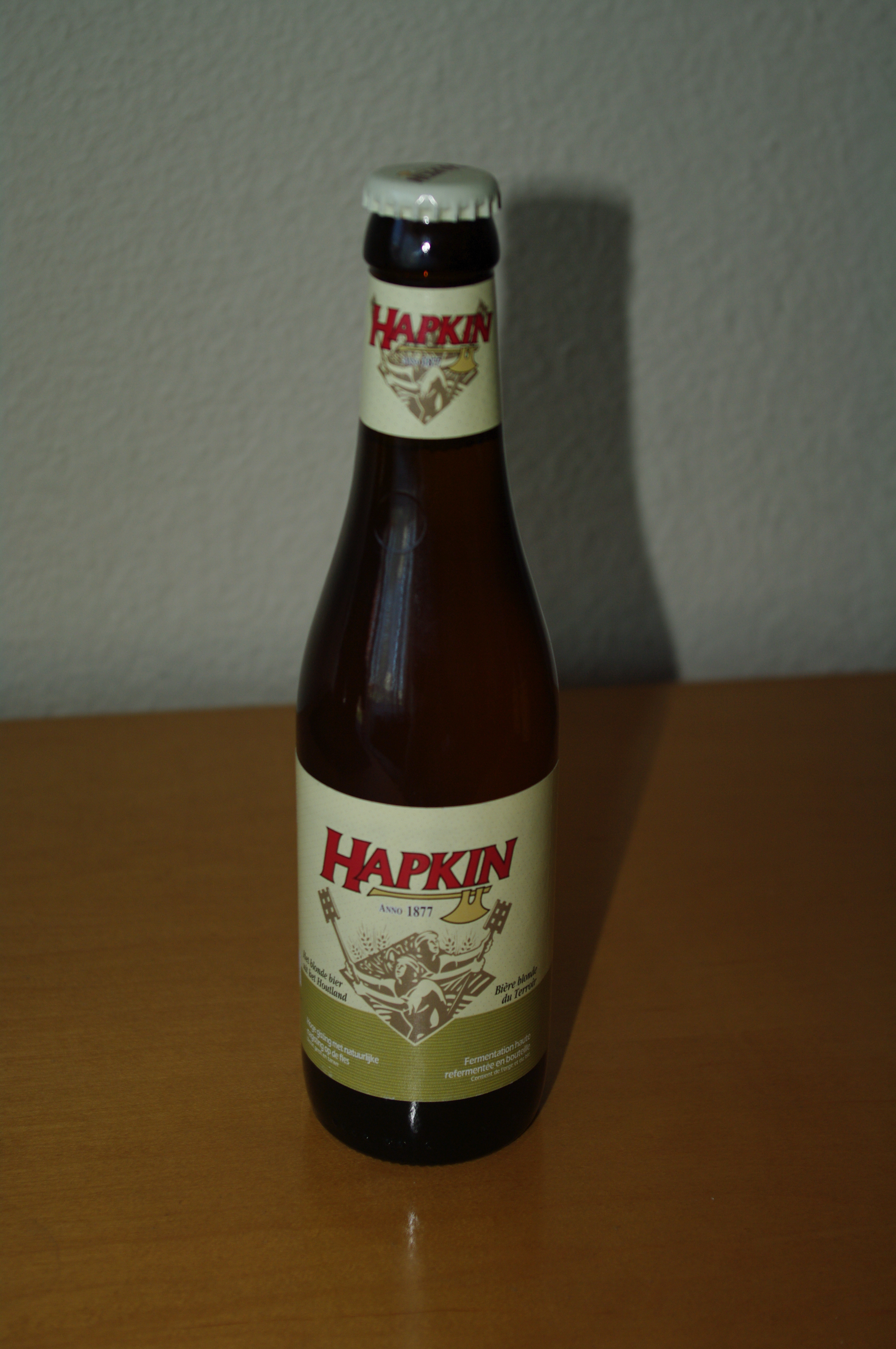 Hapkin beer